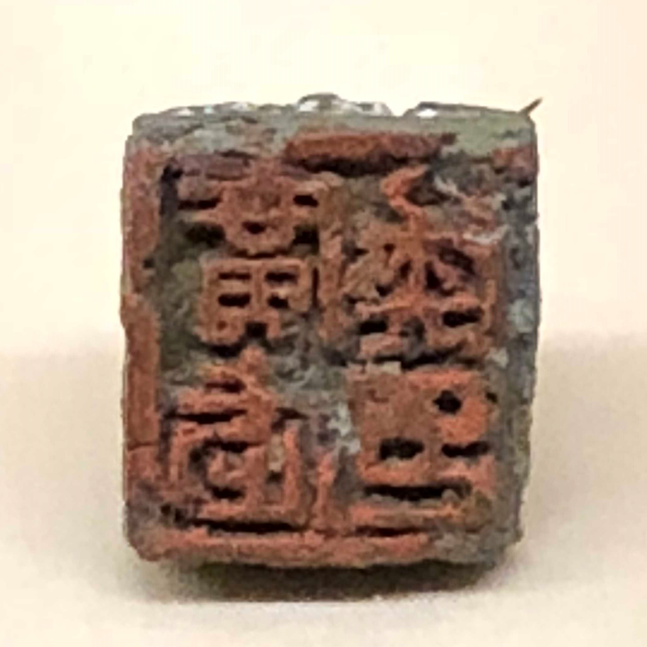 中山靖王刘胜之后有一位叫刘琨的封为广武侯，此印可能使其生前所用